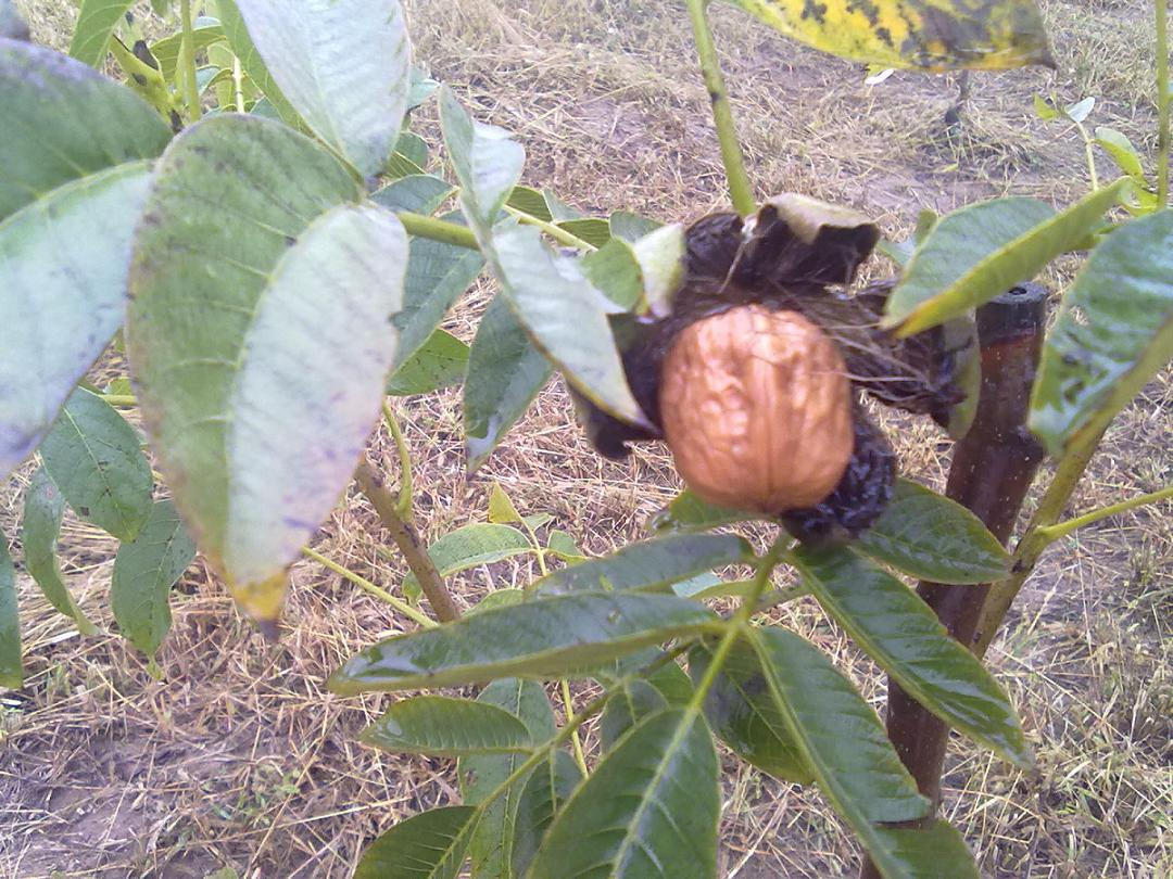 The first walnut in shell from my orchard